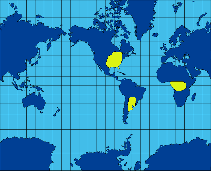 Se observa la distribución de la histoplasmosis alrededor del mundo This map appears to be inaccurate: see, e.g. the Journal of the Venezuelan Society of Microbiology for a map that reflects a totally different distribution in S. America.